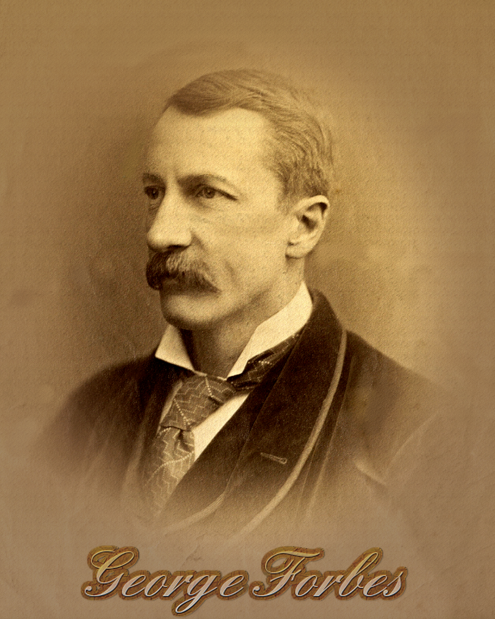 Found under search for "George Forbes, Scottish scientist"